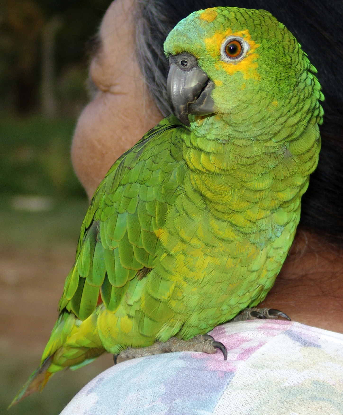 A female Blue-fronted Amazon perching on a ladies shoulder. On average, the female Blue-fronted Amazon has less yellow on face than the male, but there is overlap and this can not be used as a reliable sign to sex this species.